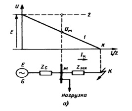 Qısa qapanma zamanı şəbəkədəki qərginliyin azalması